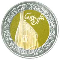 Coin of Ukraine